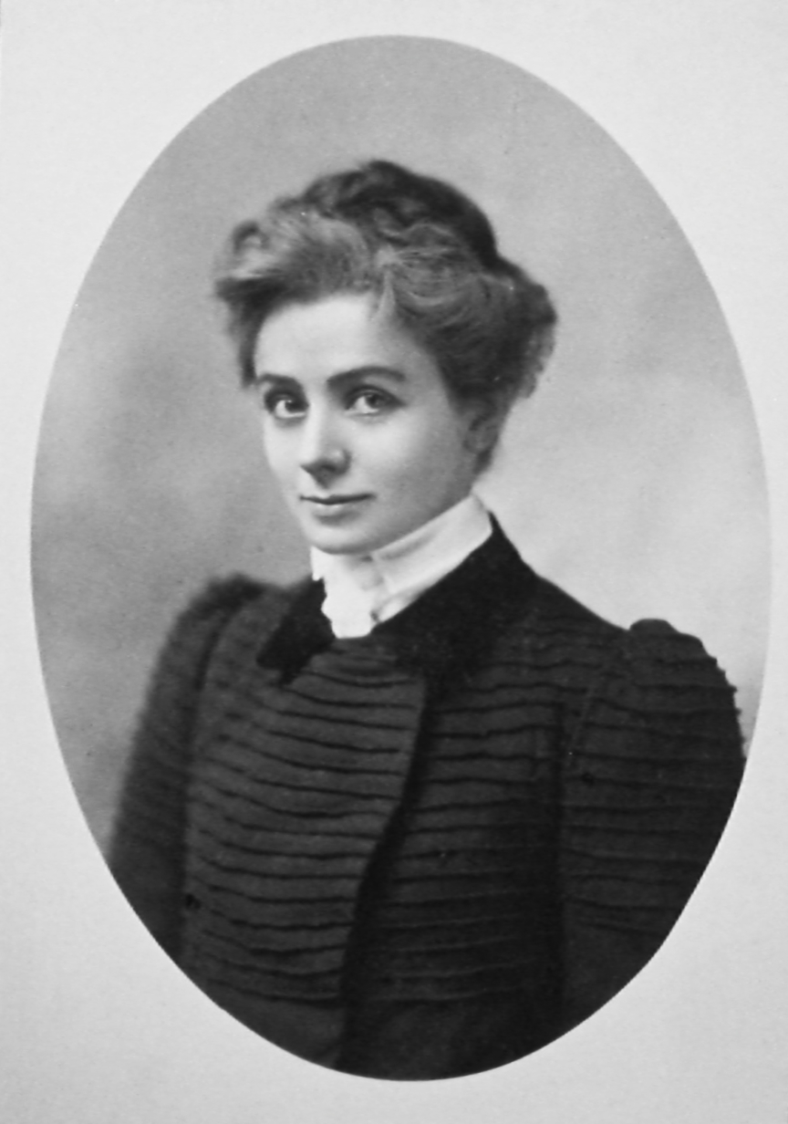 Maude Adams' photography by Burr McIntosh (1862-1942).